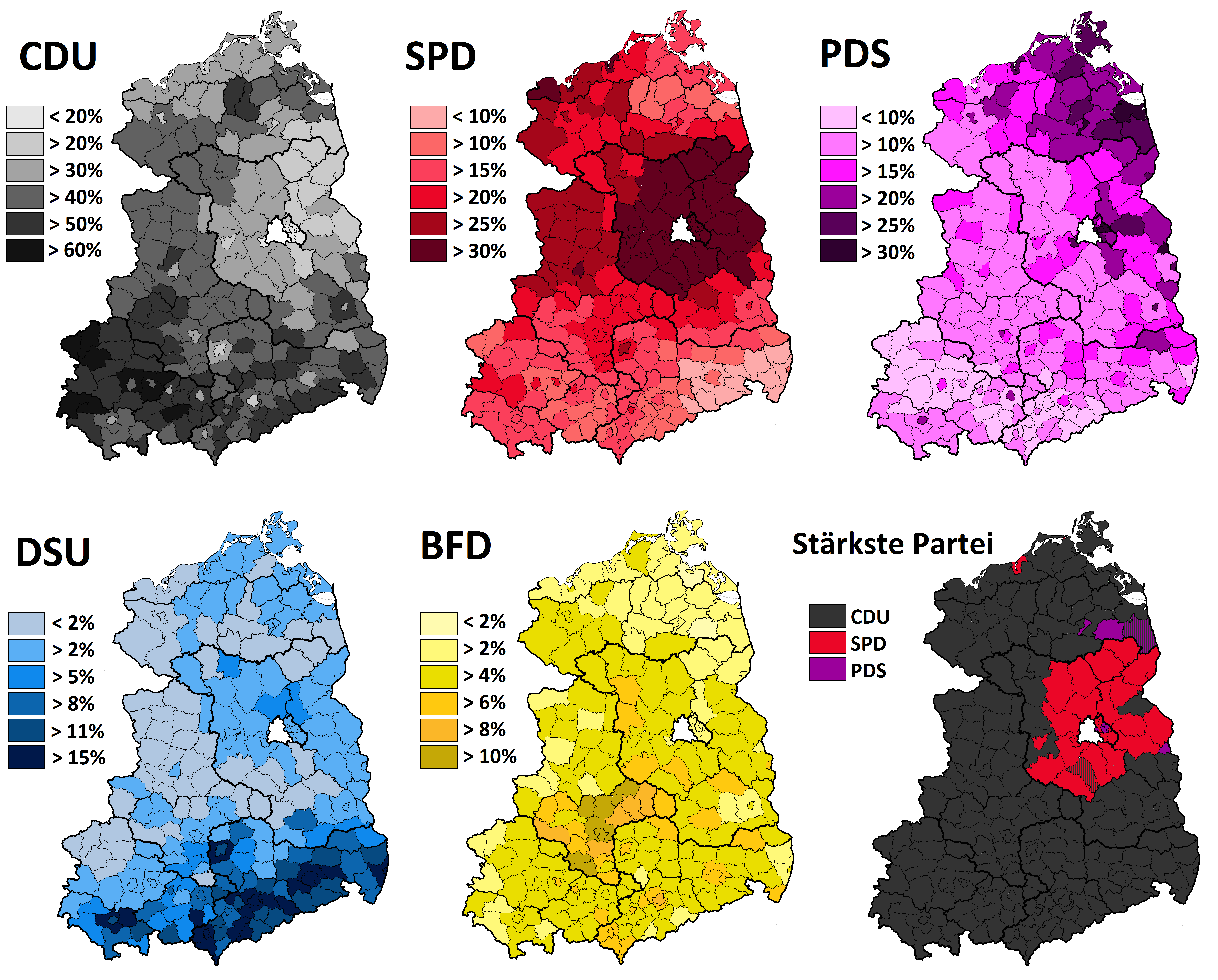 These map shows the popular vote of the different parties by county in the GDR election of the year 1990.